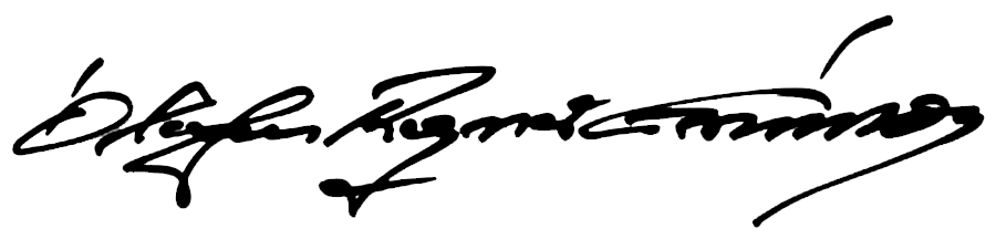 Signature of Ólafur Ragnar Grímsson.